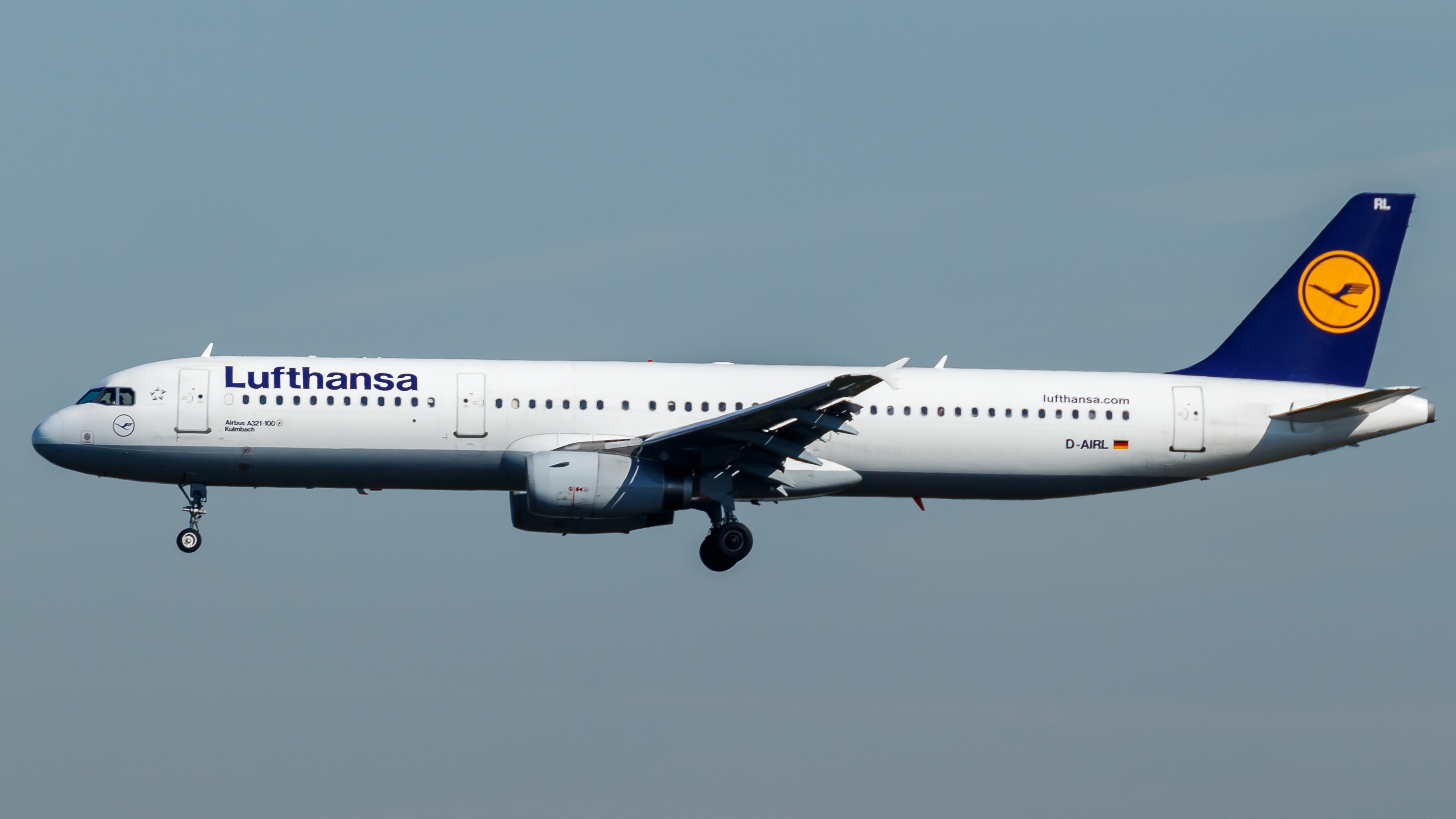 Lufthansa Airbus A321 at Frankfurt Airport